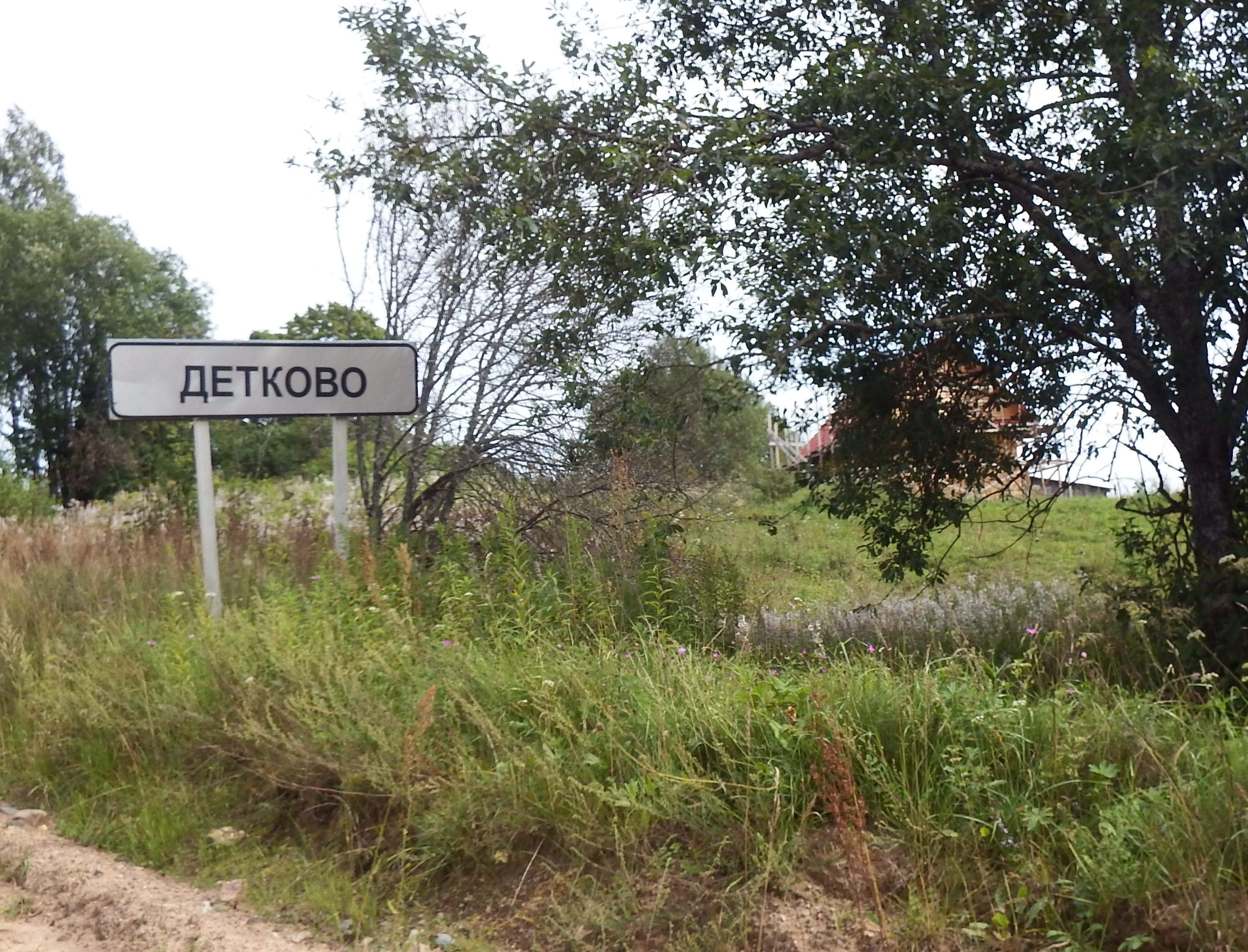 Detkovo, Pliusski district, Pskov region, enter to vountry from west